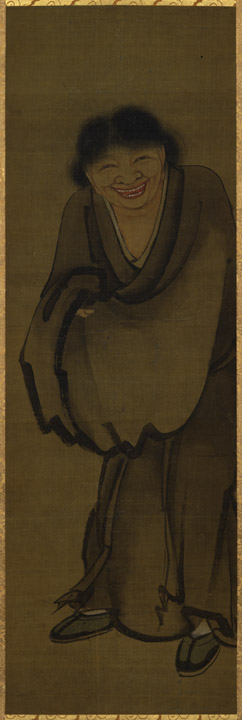 寒山拾得図（Han-shan and Shi-de）right